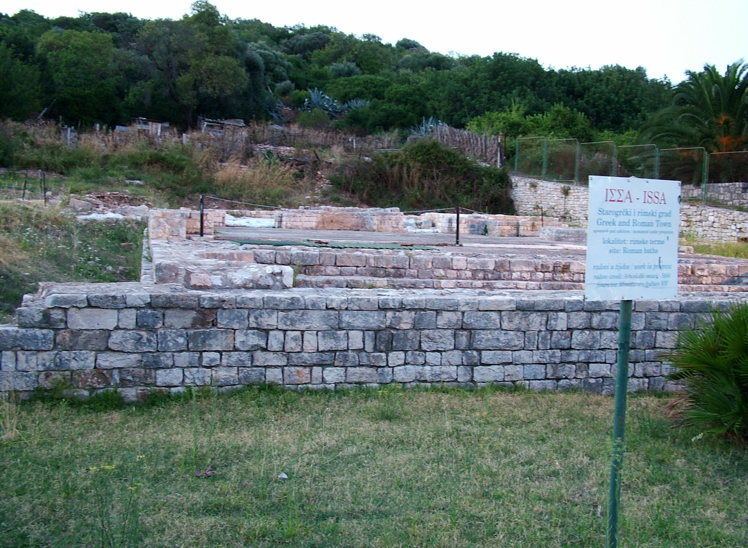 Ruins of Roman baths in Vis, Croatia